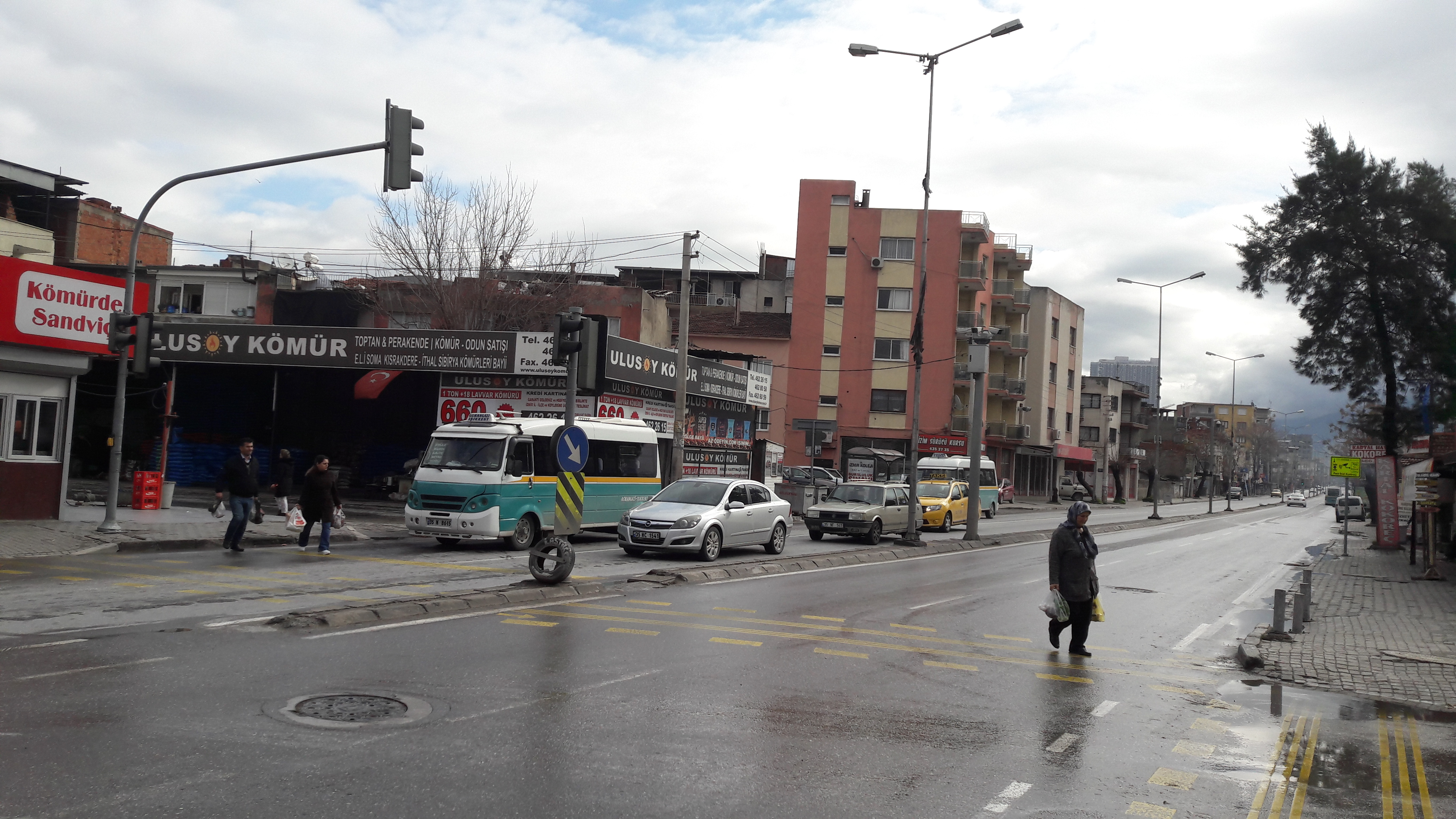 The location of Camdibi station of the planned Halkapinar-Otogar metro line.